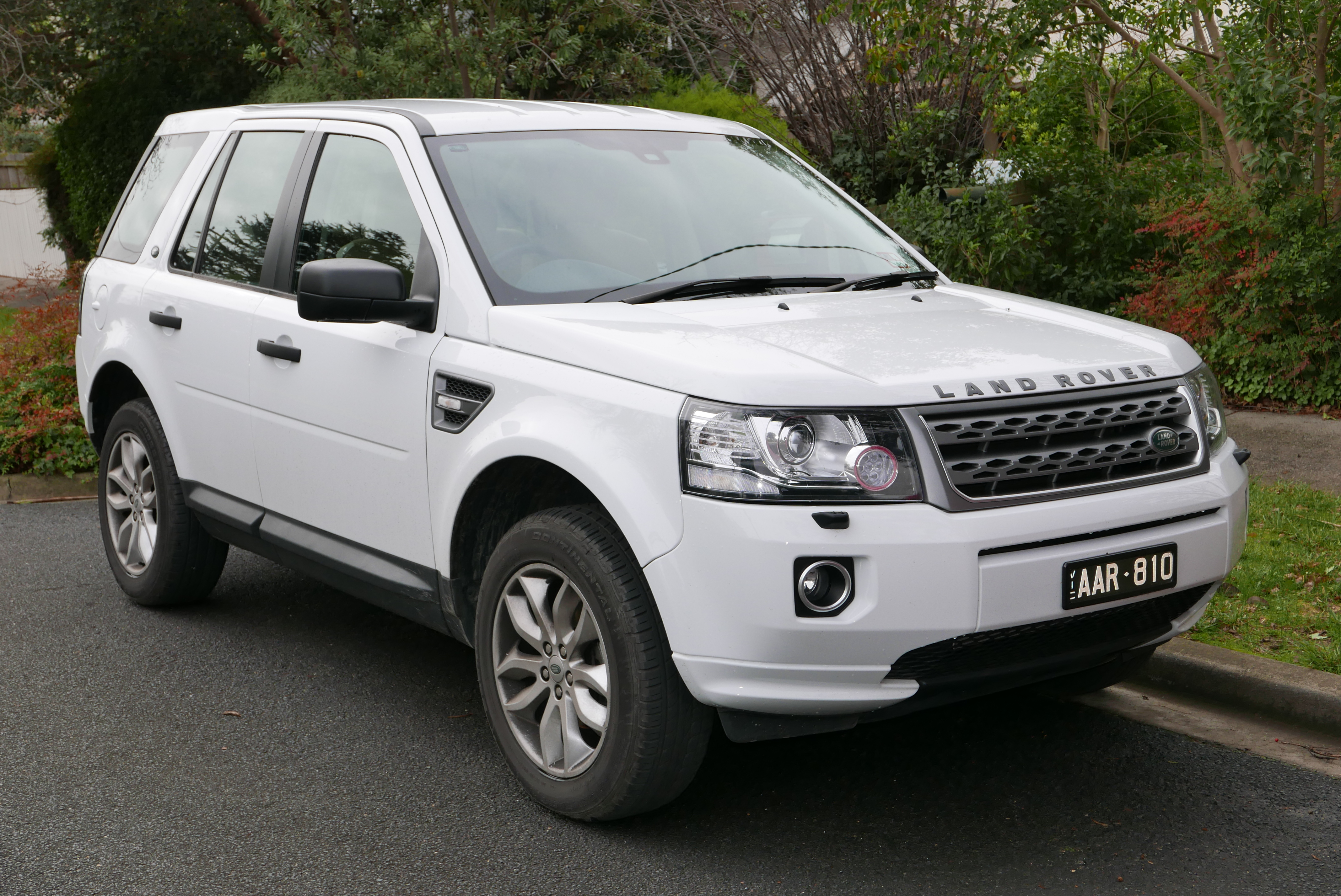 2013 Land Rover Freelander 2 (LF MY13) TD4 wagon. This is the base model, not the SE trim. Photographed in Eaglemont, Victoria, Australia. Vehicle registration enquiry resultsJurisdictionVictoriaRegistrationAAR810Chassis codeSALFA2CB3DH369399Engine code10DZ794059724224DTCompliance date2013-09Year of manufacture2013